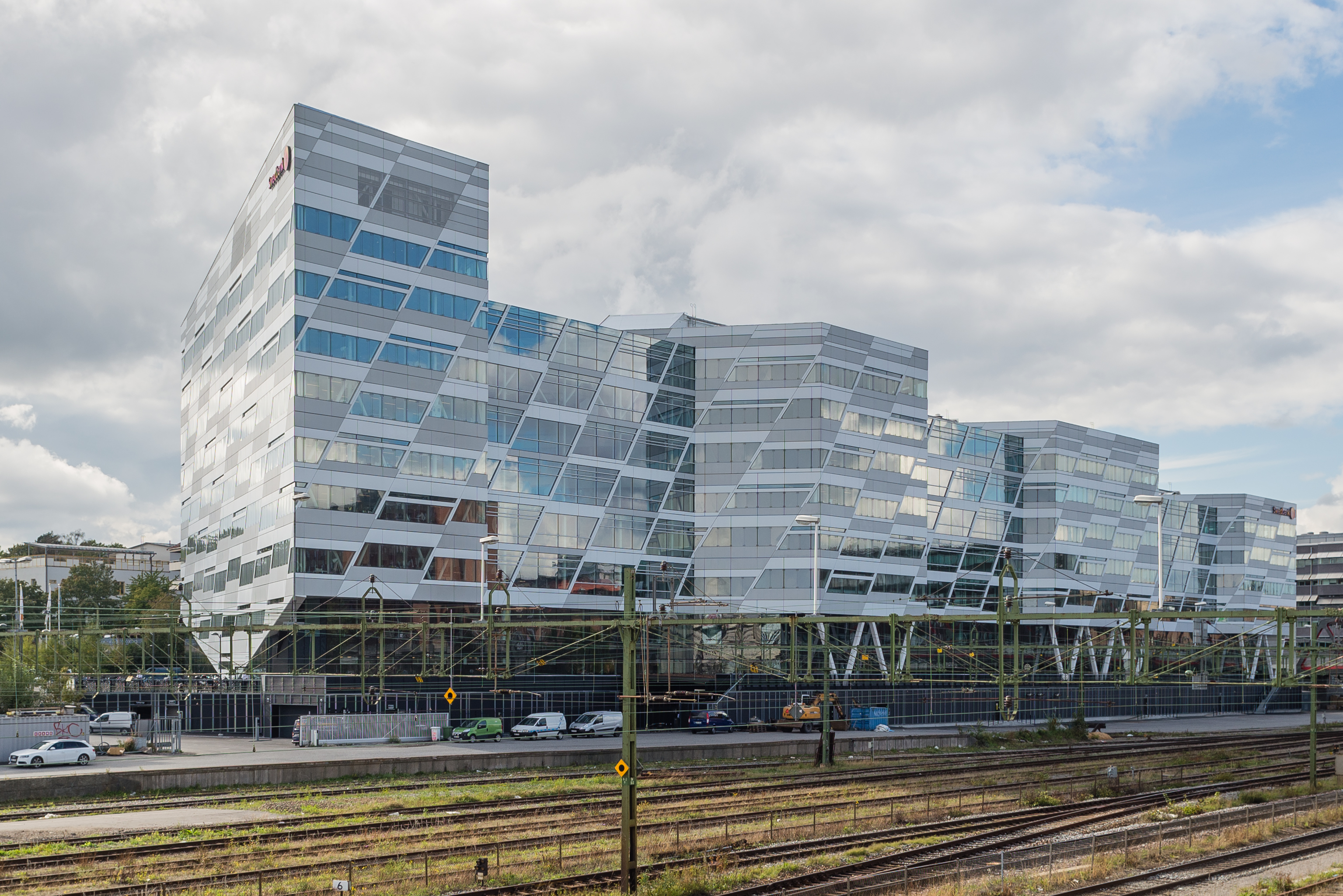 New corporate headquarter for Swedbank in Sundbyberg, Stockholm. Inaugurated in 2014. Architects: 3XN.